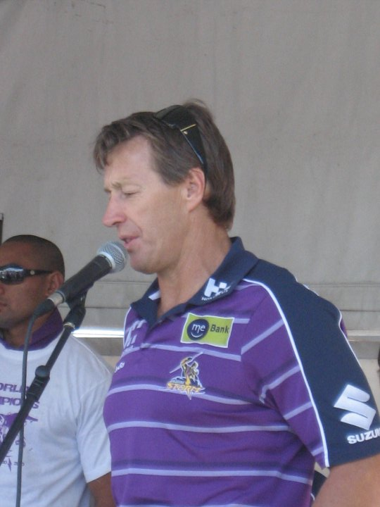 Picture of Craig Bellamy